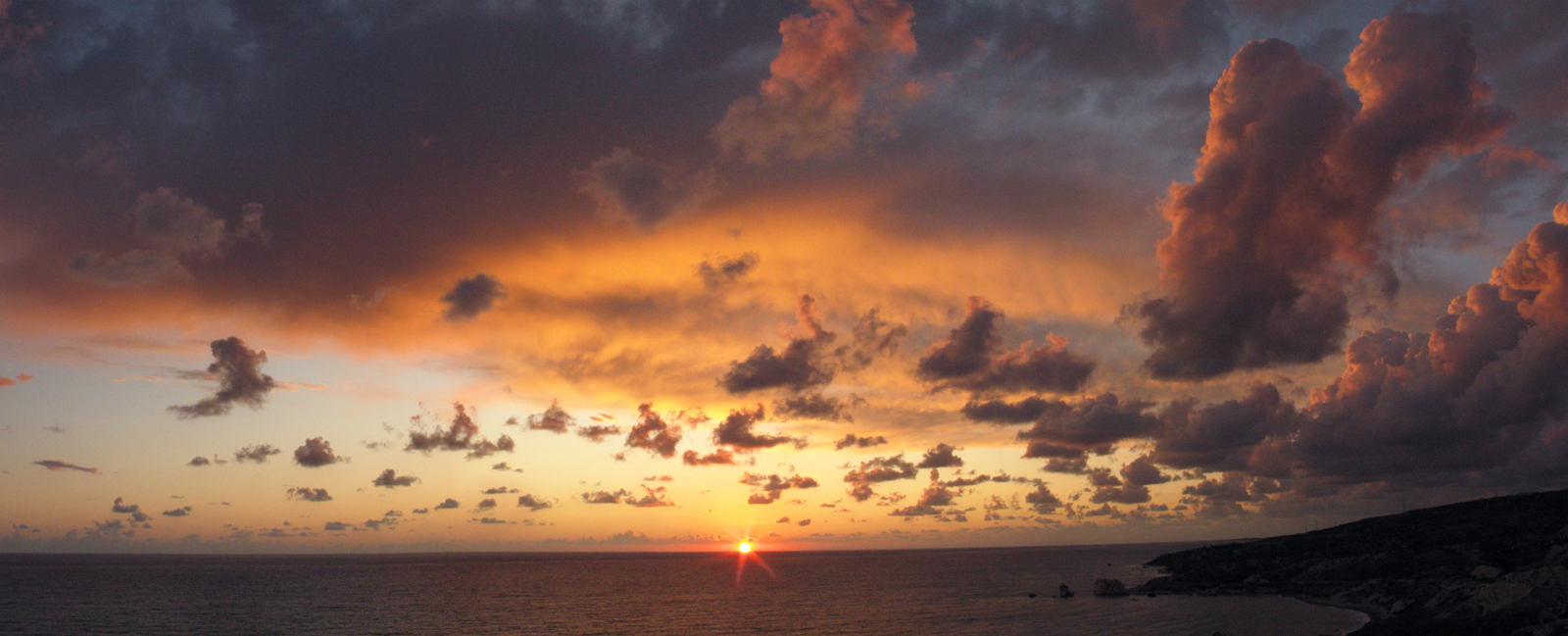 Petra Tou Romiou (Rock of the Greek), or Aphrodite's Rock